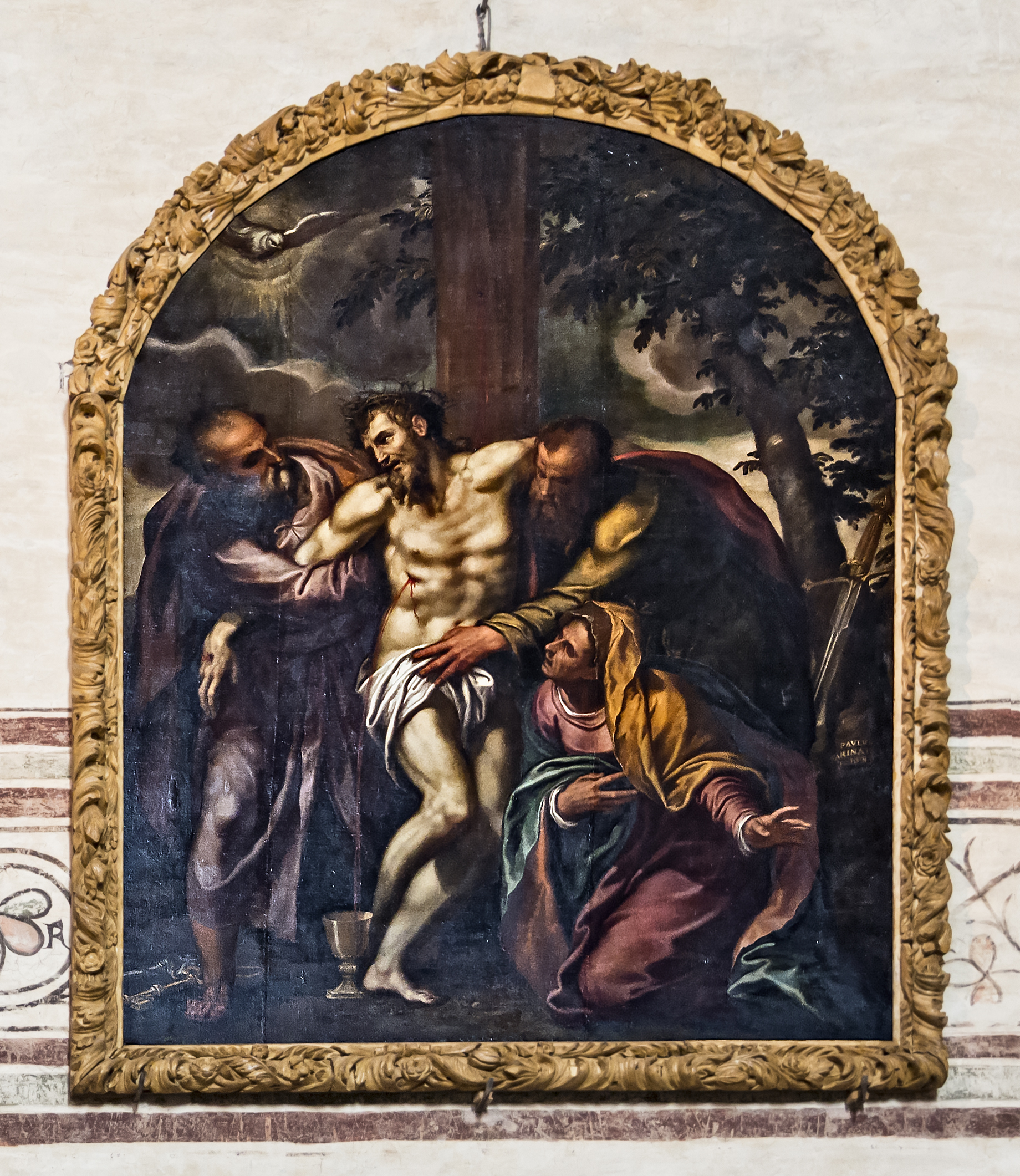 Basilica Santa Anastasia. The left side of the transept, the painting by Paolo Farinati representing The Miracle of St. Hyacinth.